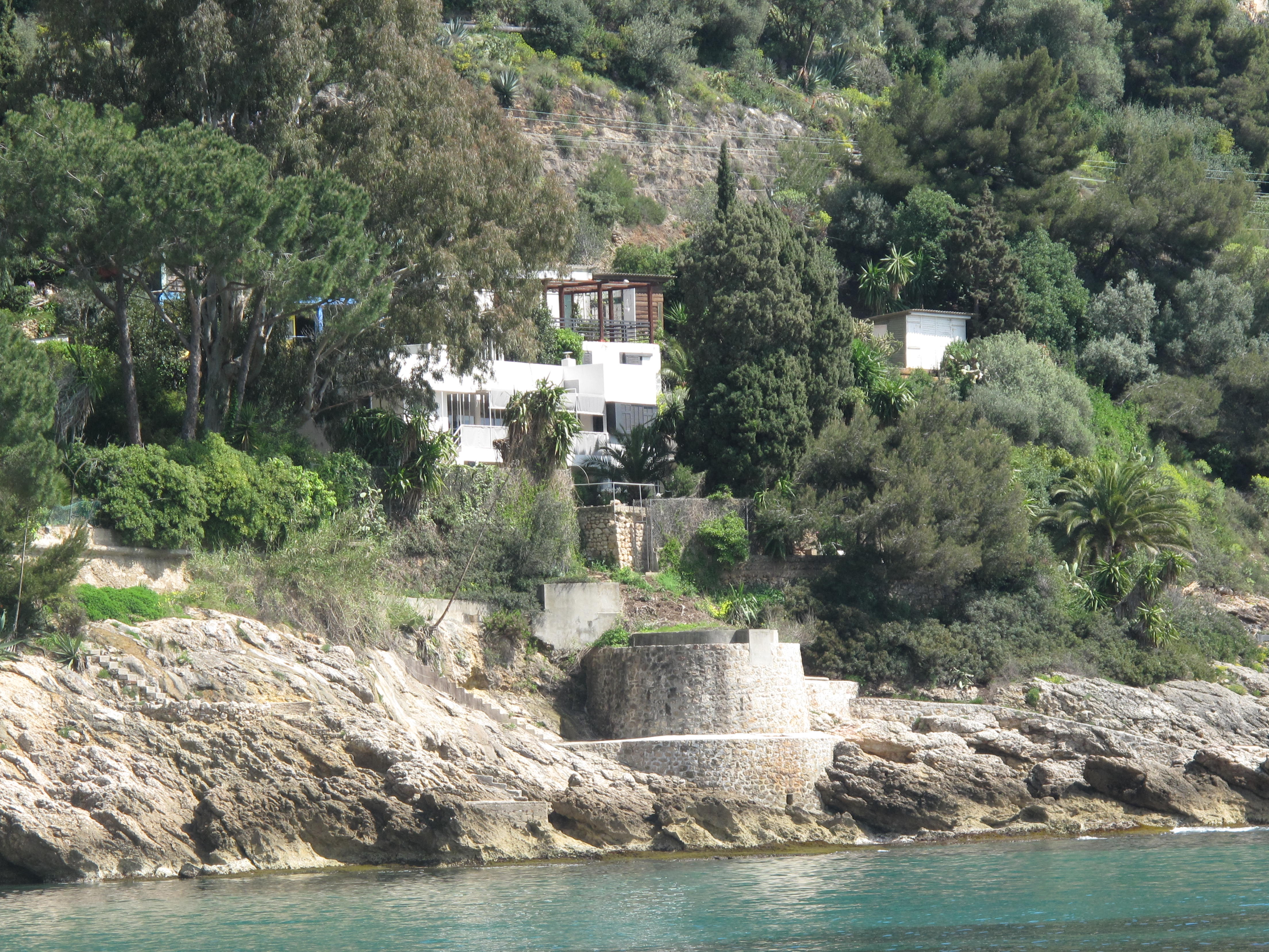 Sea shore in Roquebrune-Cap-Martin, Alpes-Maritimes, France. Behind the trees, the villa E-1027.